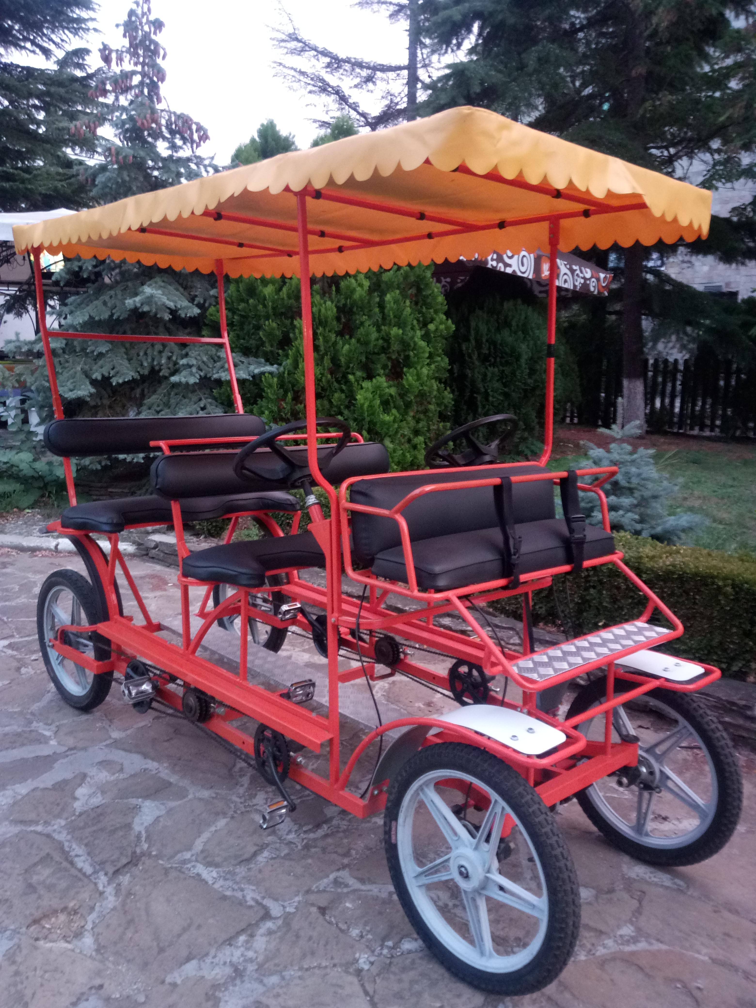 The Single Bench Classic Surrey, accommodating up to 3 adults and 2 small children, provides families with the opportunity to enjoy the outdoors and get exercise together.